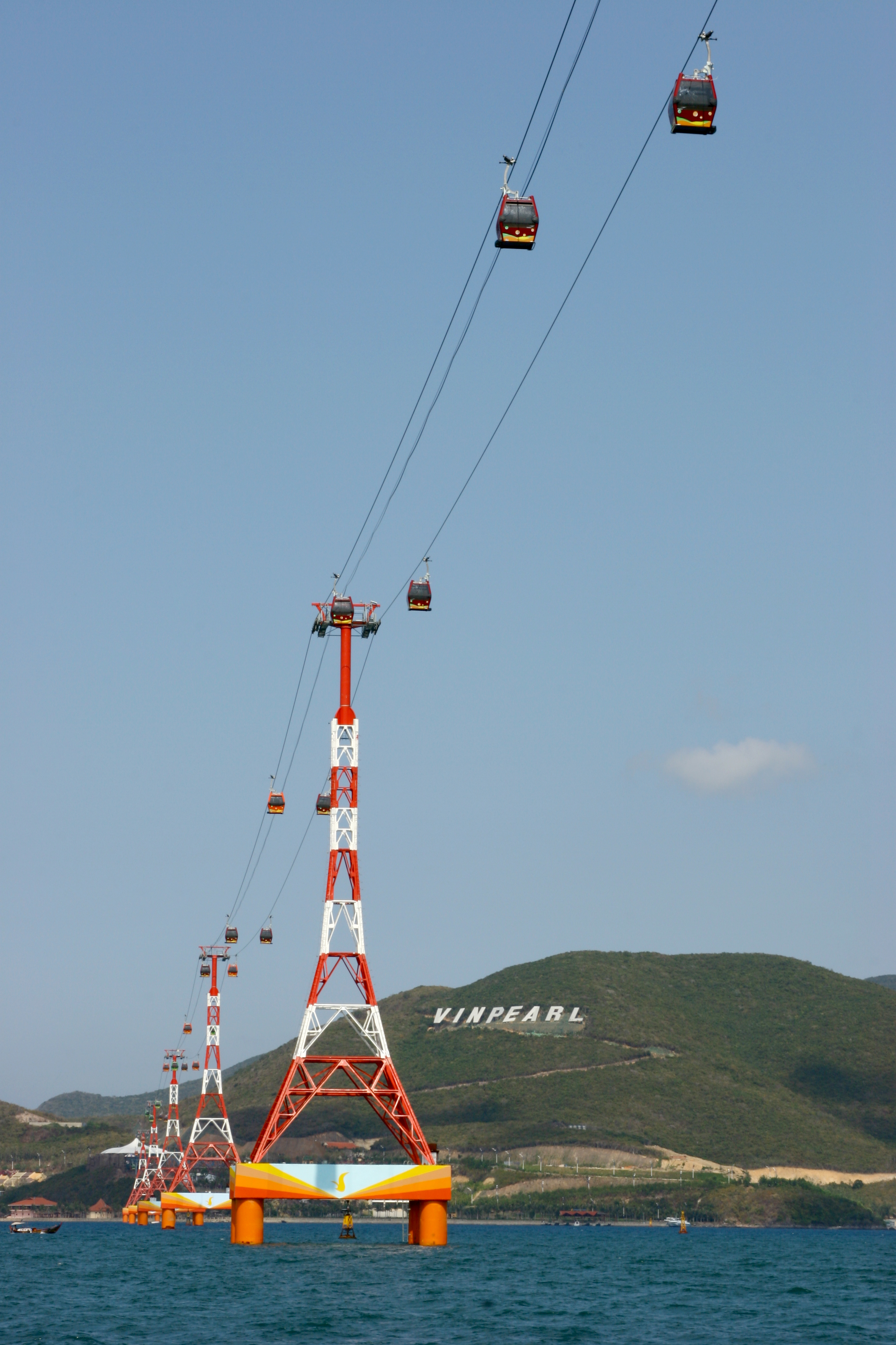 Gondola lift to Vinpearland, Nha TrangVietnam 2007 680